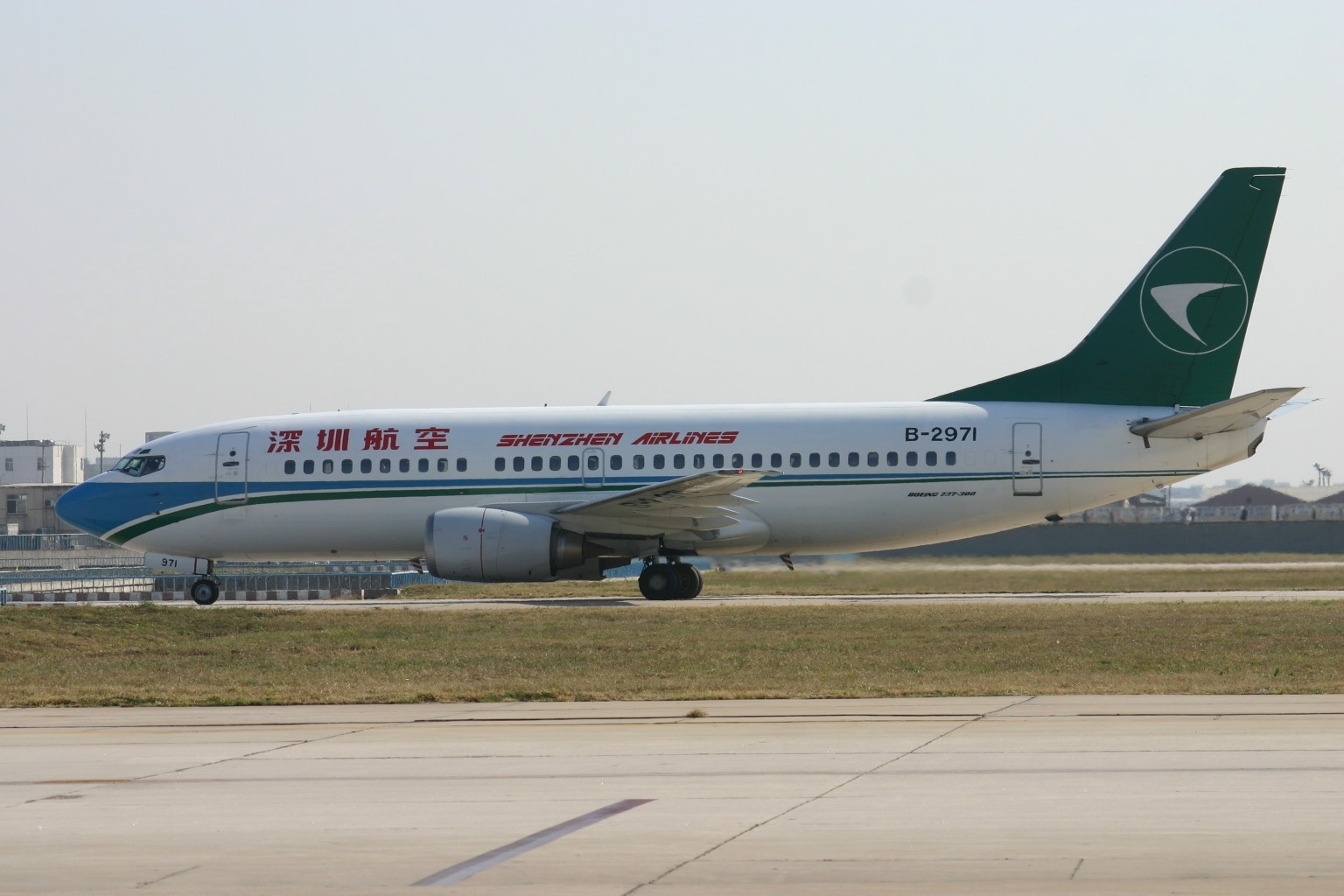 At Beijing Capital